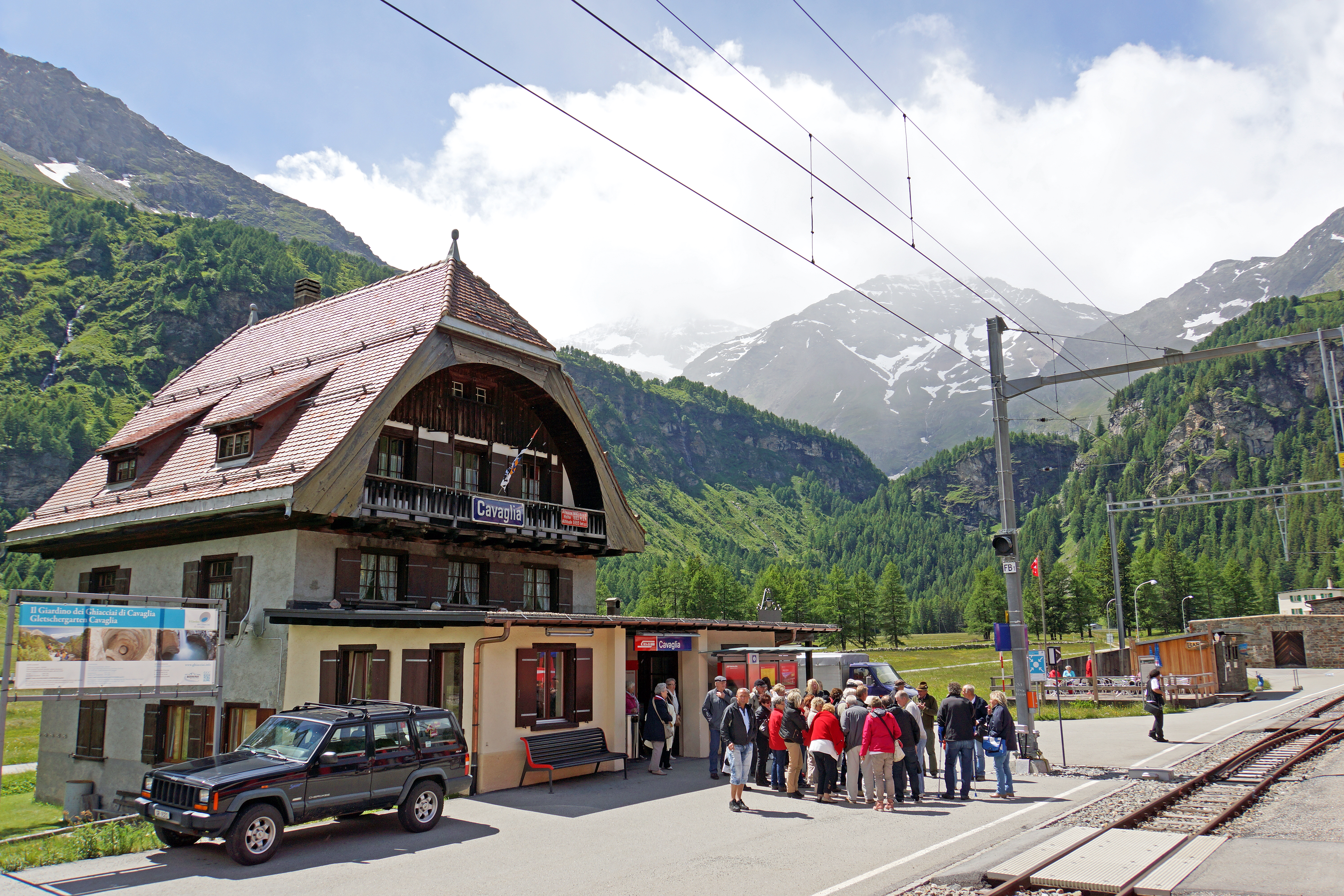 PLEASE, NO invitations or self promotions, THEY WILL BE DELETED. My photos are FREE to use, just give me credit and it would be nice if you let me know, thanks. Cavaglia is a station on the Bernina Railway line, in the Canton of Graubünden. Users get hourly services on this line.